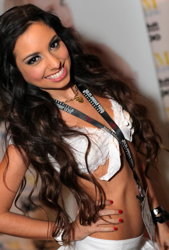 Trinity St. Clair